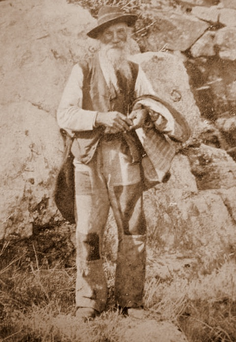 elba island